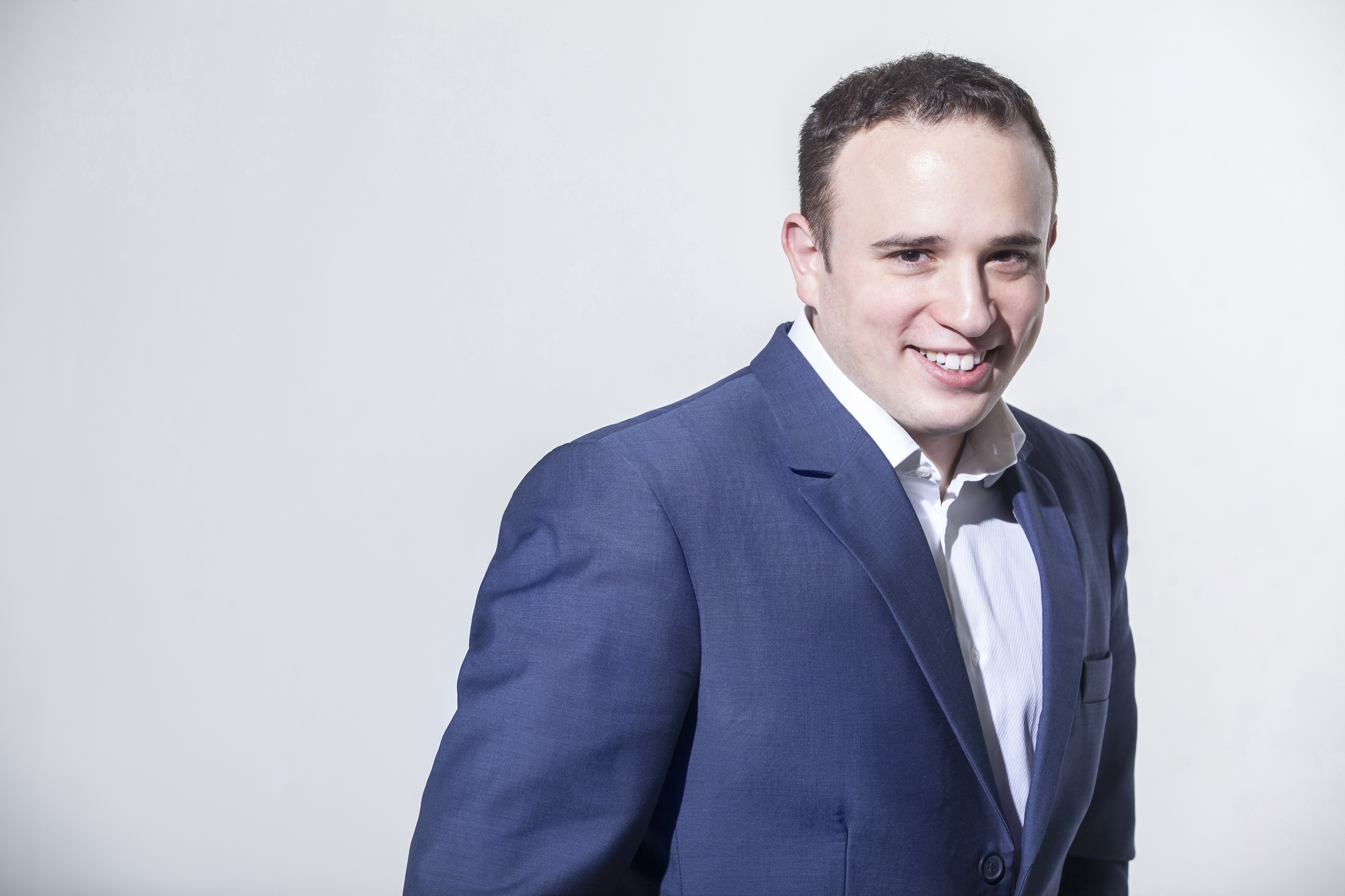 David Dorosz